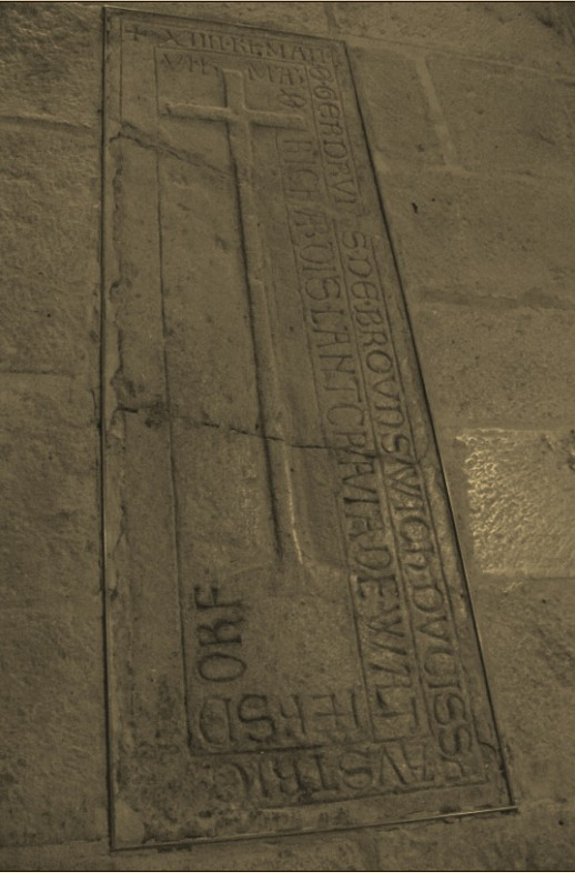 Stift Heiligenkreuz